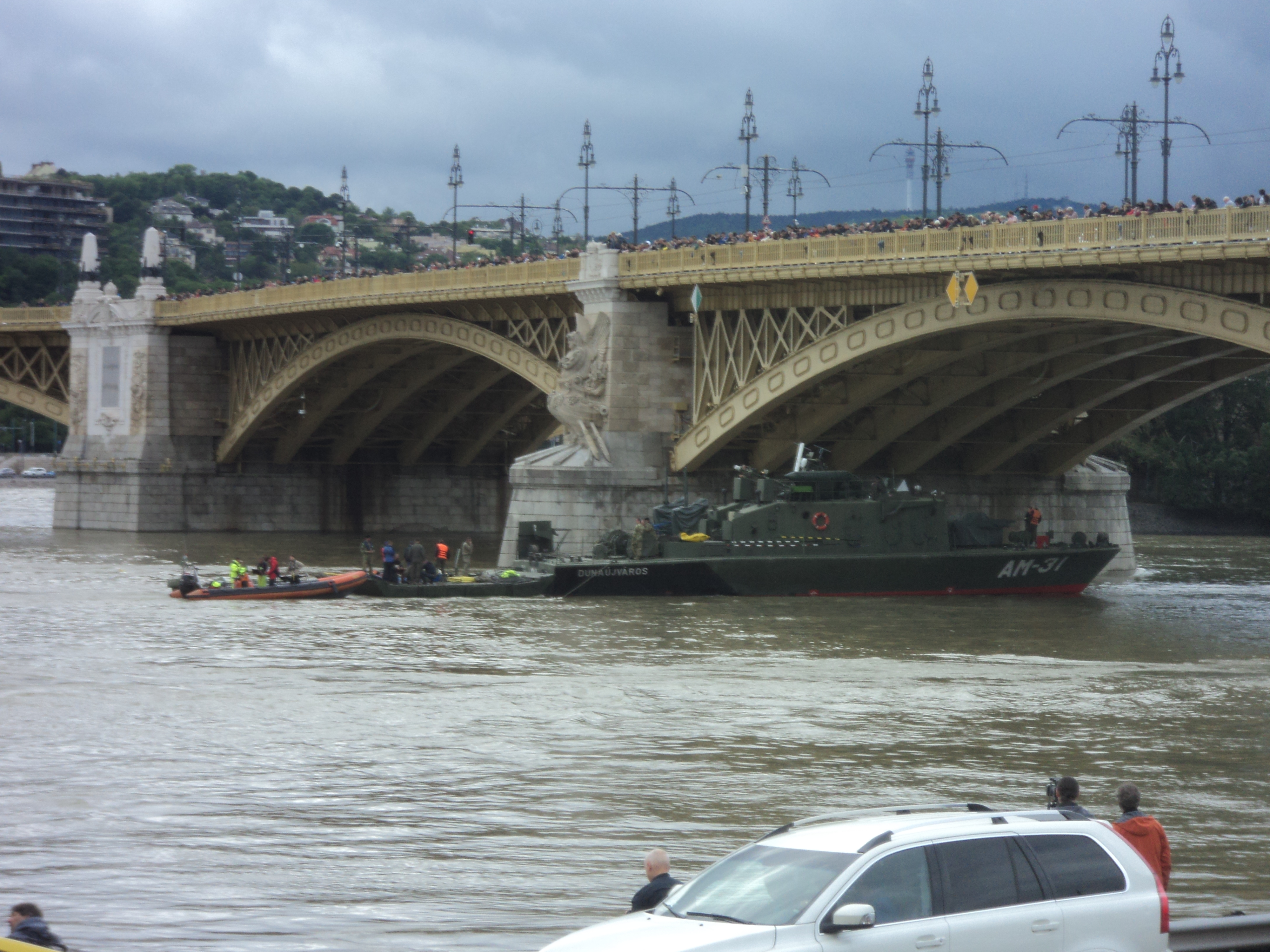 Preparations for raising the Hableany.